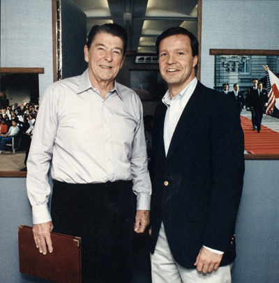 Senior Associate Counsel Christopher Cox on Air Force One with President Ronald Reagan.